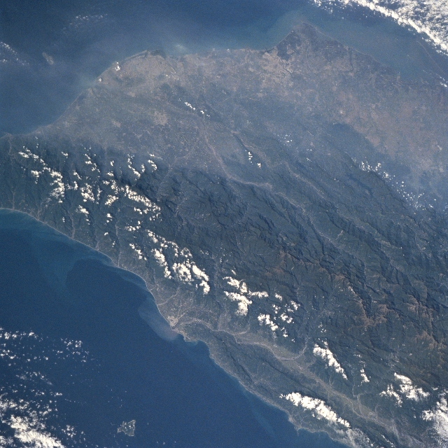 A section of the rugged, steep sloped and densely forested Chungyang Mountains (dark, north-south aligned feature) can be identified in southern Taiwan. Maximum elevations in this section of the mountain range from slightly over 10000 feet (3048 meters) above sea level in the north (lower right) to less than 6000 feet (1830 meters) in the south (middle left edge). The southerly draining Peinan River Valley along the east coast (light-colored line-bottom center) and the southwesterly draining Chishan River (light-colored line-center of the image) can be traced through the mountainous terrain. The southwest coastal cities of Kaohsiung (upper left) and Tainan (upper center) can be seen through the hazy atmosphere that constantly plagues the highly industrialized and densely populated west coastal plain of Taiwan.